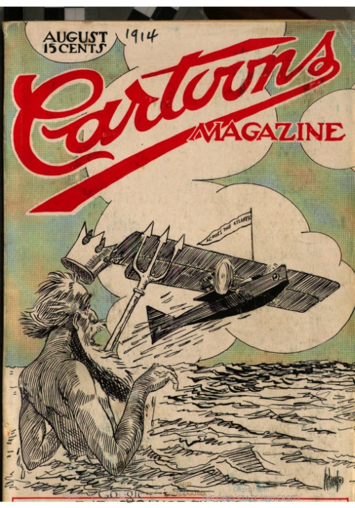 Cover of Cartoons magazine, Volume 6, Issue 2, August 1914